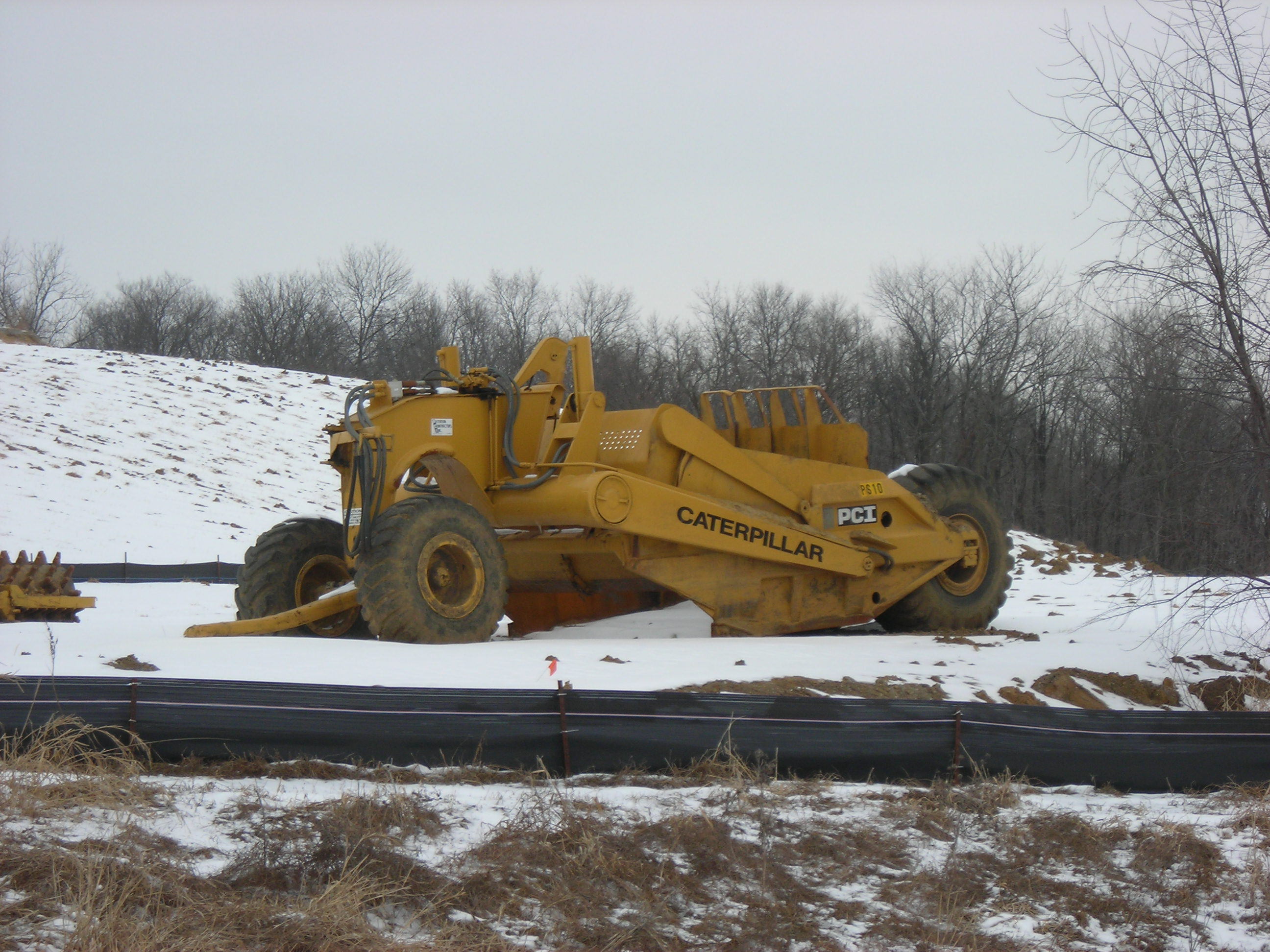 A caterpillar scraper sitting on snowy ground.